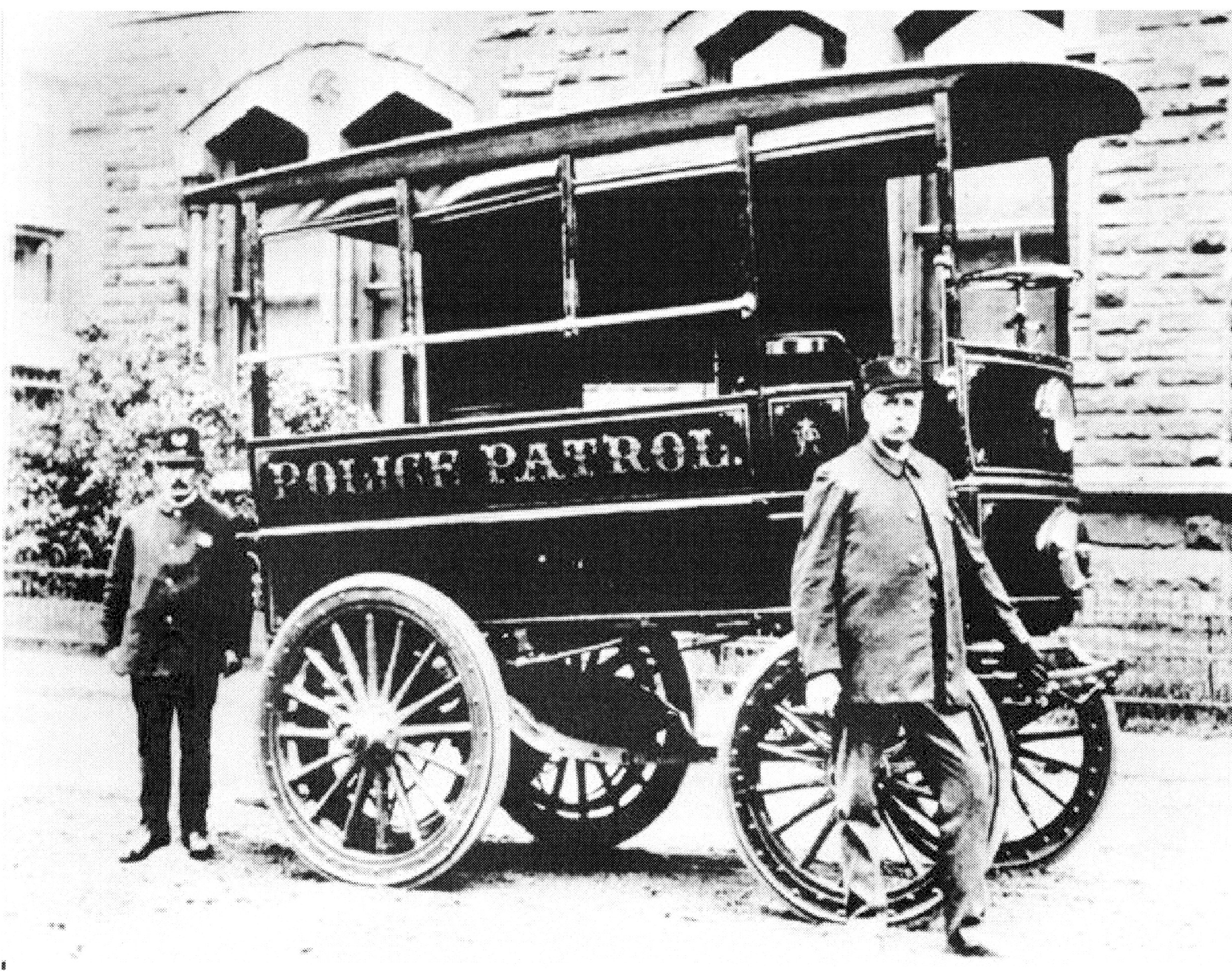 Police patrol motorcar, Akron Ohio, 1899.